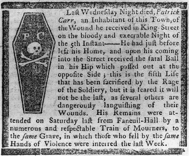 Obituary of Patrick Carr, the fifth and final victim of the Boston Massacre, published in "The Boston Gazette, and Country Journal" on 19 March 1770, with an engraving of his coffin by Paul Revere (1735-1818).